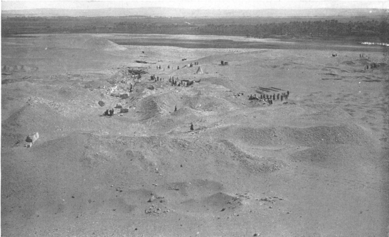 View from the Pyramid of Senusret I over the mortuary temple at the beginning of the excavation of 1908/09